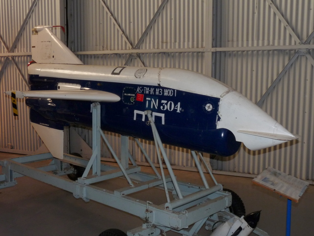 An Ikara anti submarine missile at the South Australian Aviation Museum, Port Adelaide